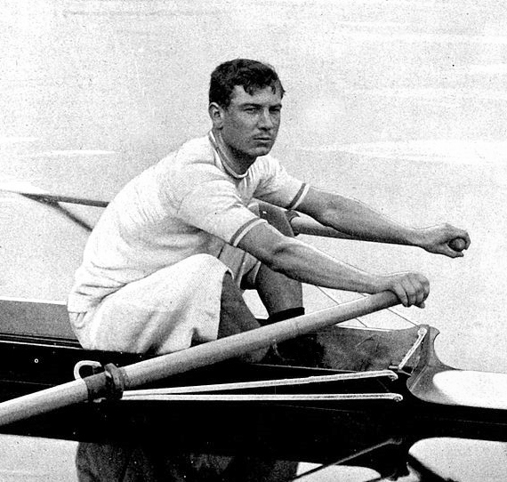 Sport, Rowing, 1900 Olympic Games, Paris, France, Louis Prevel, France, a champion rower in France,but failing to finish in the Single Sculls at the Paris Olympic Games, In that race he fell into the water claiming he had been knocked unfairly